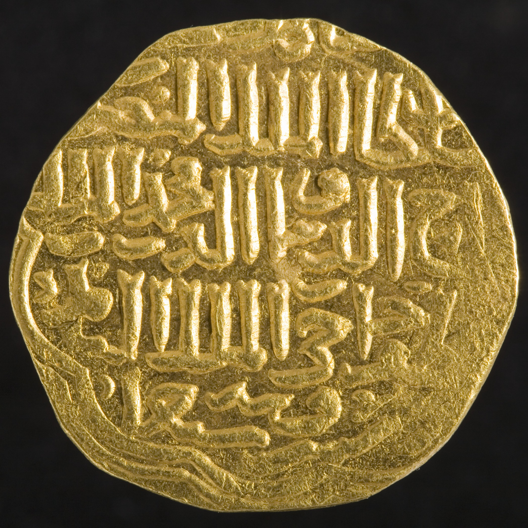 Egypt, 1361-1363 Tools and Equipment; coins Gold Diameter: 1 in. (2.54 cm); Weight: 0.28 oz (7.84 g) Purchased with funds provided by the Joan Palevsky Bequest (M.2006.143.8) Islamic Art Currently on public view: Ahmanson Building, floor 4